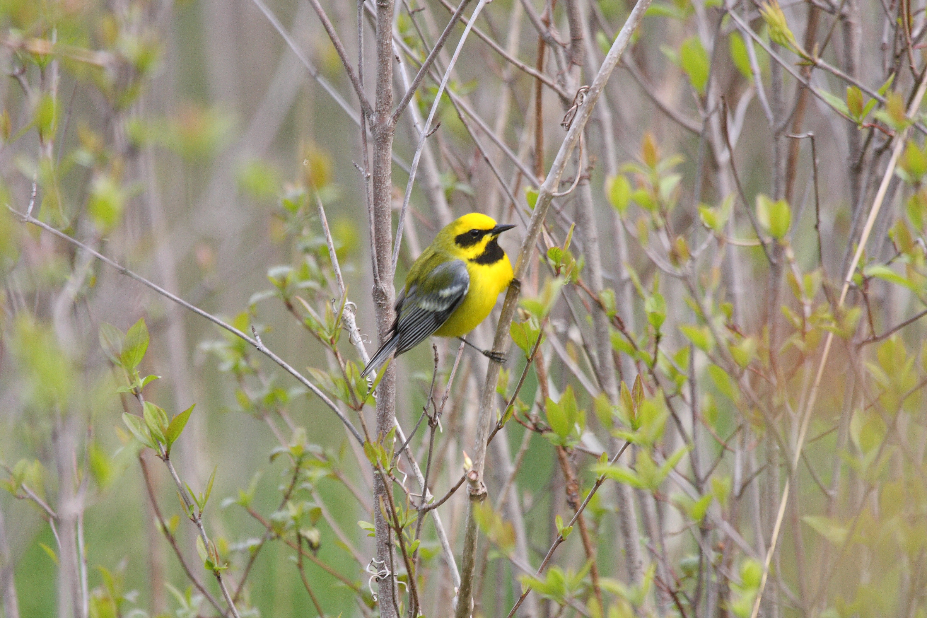 Lawrance's Warbler (hybrid Vermivora pinus × Vermivora chrysoptera).